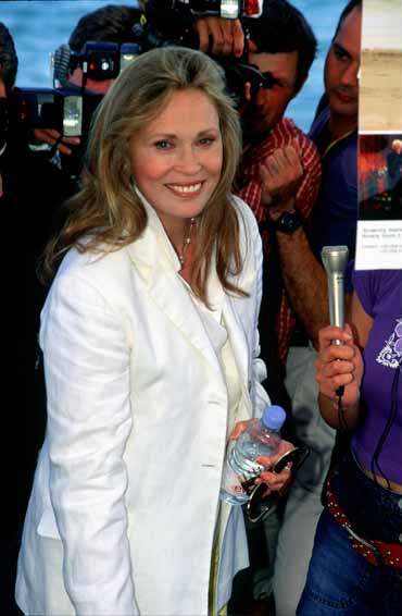 Dunaway, Faye at Cannes in 2001. My own picture. Created by Rita Molnár 2001.